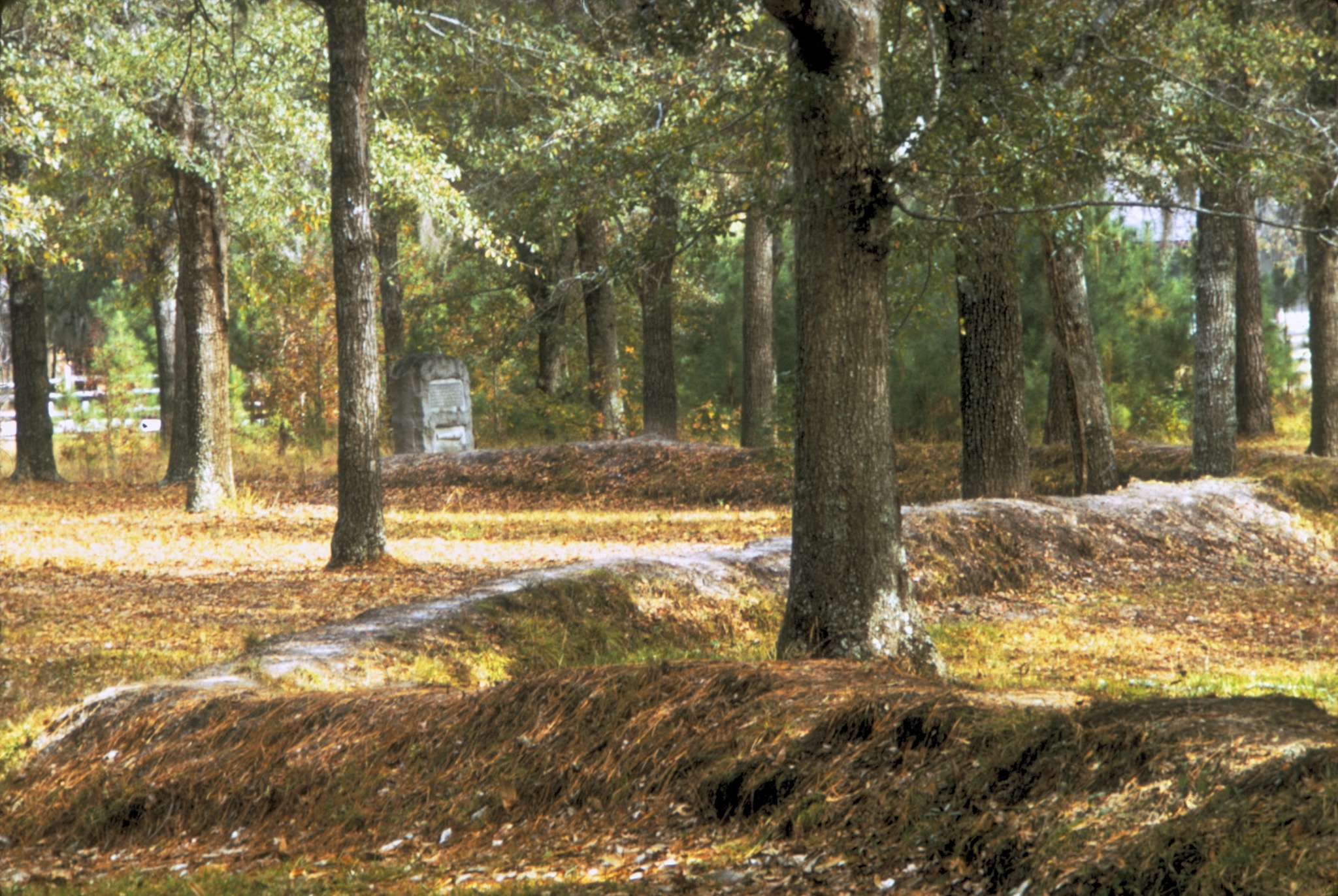 Moores Creek National Battlefield, North Carolina, USA. The picture shows the restored earthworks of the patriotic militia in the Battle of Moores Creek Bridge on 1776-02-27 (February 27th 1776) in the American Revolutionary War.